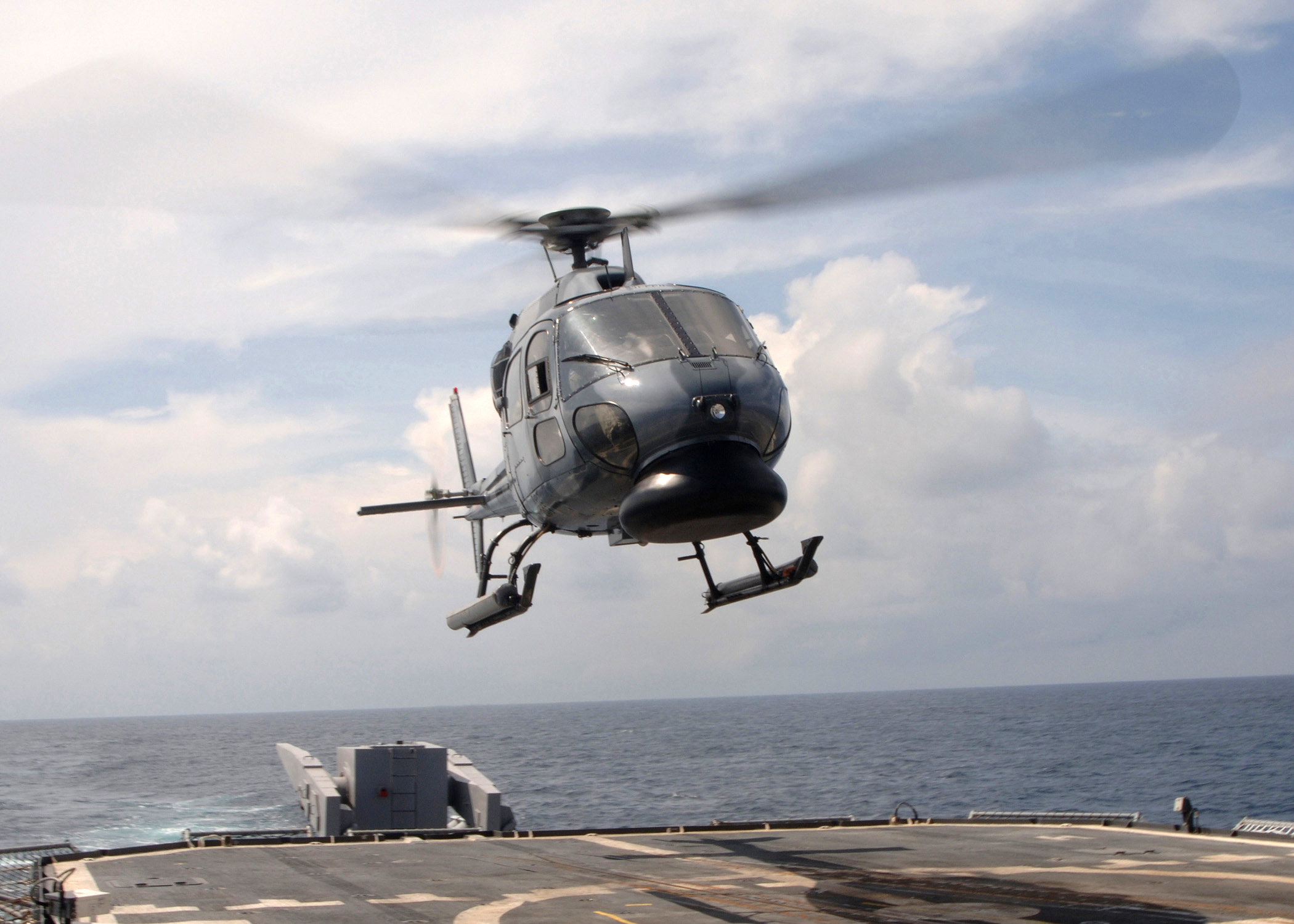 Pacific Ocean (July 15, 2005) - A Colombian Navy AS-555 Fennec helicopter launches from the flight deck of the guided missile cruiser USS Thomas S. Gates (CG 51) during UNITAS 46-05. Thomas S. Gates is part of a multinational naval and coast guard force from six nations conducting UNITAS 46-05 Pacific Phase off the coasts of Colombia. The Colombian Navy in this year’s UNITAS Pacific Phase hosts Ecuador, Panama, Peru and the United States. During the two-week exercise, participating units have the opportunity to train as unified force in all aspects of naval operations, from maritime interdiction to anti-submarine and electronic warfare. U.S. Naval Forces Southern Command sponsors UNITAS exercises with the objective to foster cooperation and develop interoperability among the navies of the region. U.S. Navy photo by Photographer’s Mate 2nd Class Michael Sandberg (RELEASED)